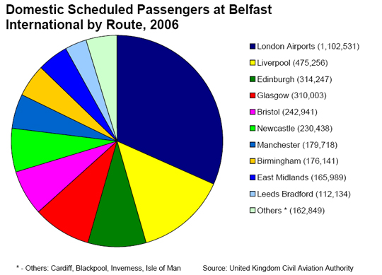 Domestic Scheduled Passengers at Belfast International by Route, 2006 Source: UK Civil Aviation Authority Statistics